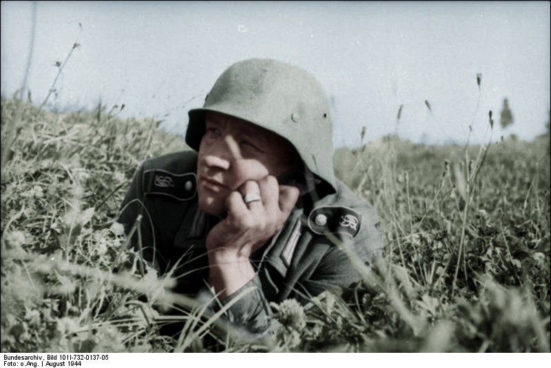 This is a retouched picture, which means that it has been digitally altered from its original version. Modifications: recolored by User:Ruffneck88. == Recolored Version of this image. Ostpreussen, Soldat der Div. »Großdeutschland« Photographer [Göttert]Archive description Description provided by the archive when the original description is incomplete or wrong. You can help by reporting errors and typos at Commons:Bundesarchiv/Error reports. Ostpreussen, Wilkowischken.- Schütze der Division "Großdeutschland" auf Hand gestützt im Gras liegend; PK Div. GroßdeutschlandTitle Ostpreussen, Soldat der Div. »Großdeutschland« Description Information added by Wikimedia users.